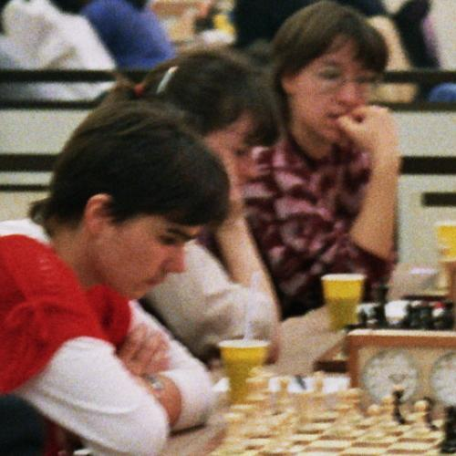 Chmielova, Maskova, Richtrova, Chess Olympiad 1988 in Thessaloniki, Photographer Gerhard Hund.